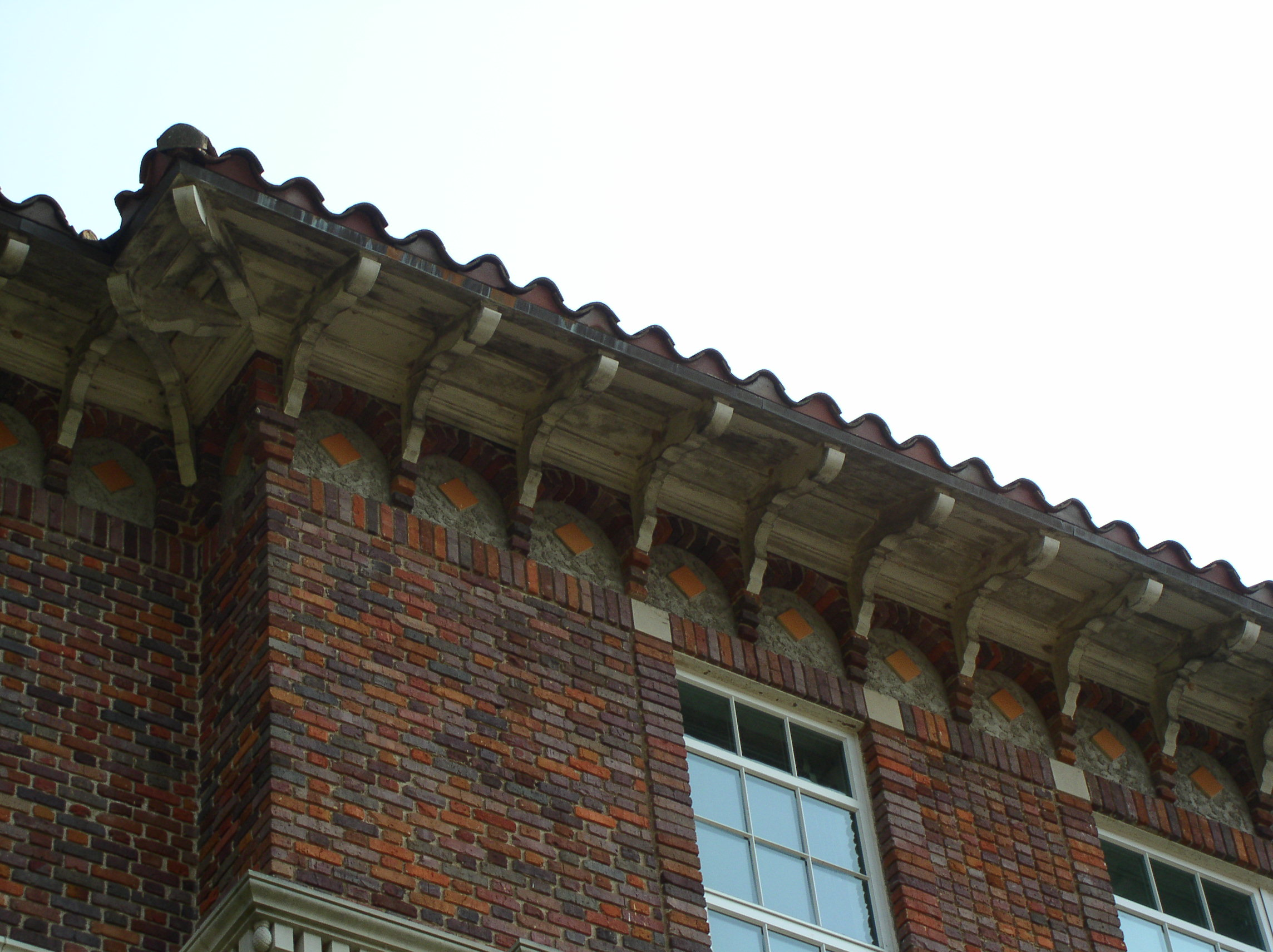 Cornice on Long Hall at Clemson University